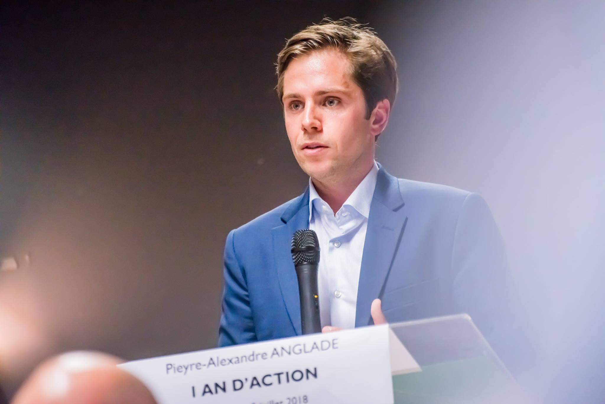 Portrait of Pieyre-Alexandre Anglade, speaking in a meeting in Brussels.